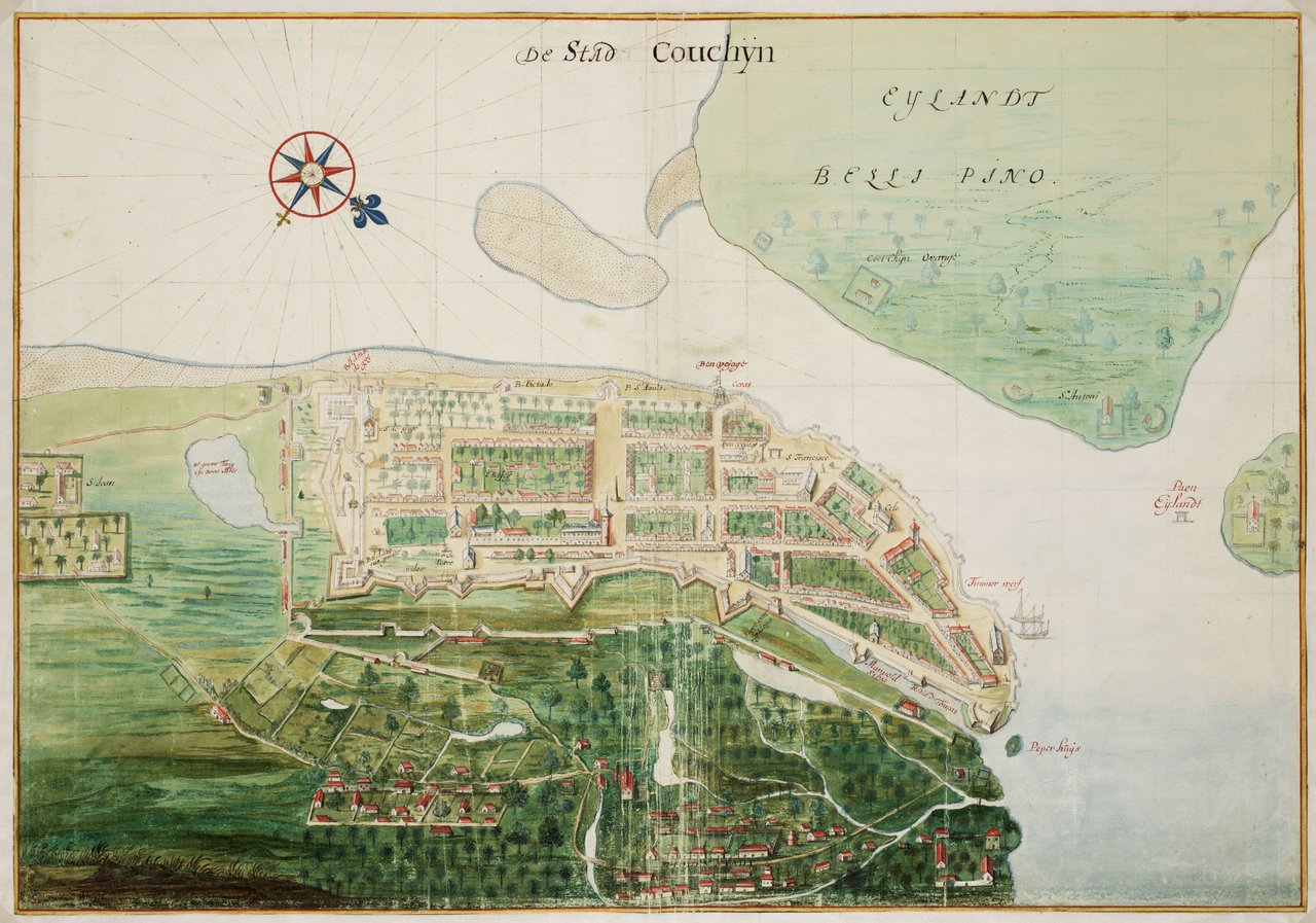 The city of Cochin in India.